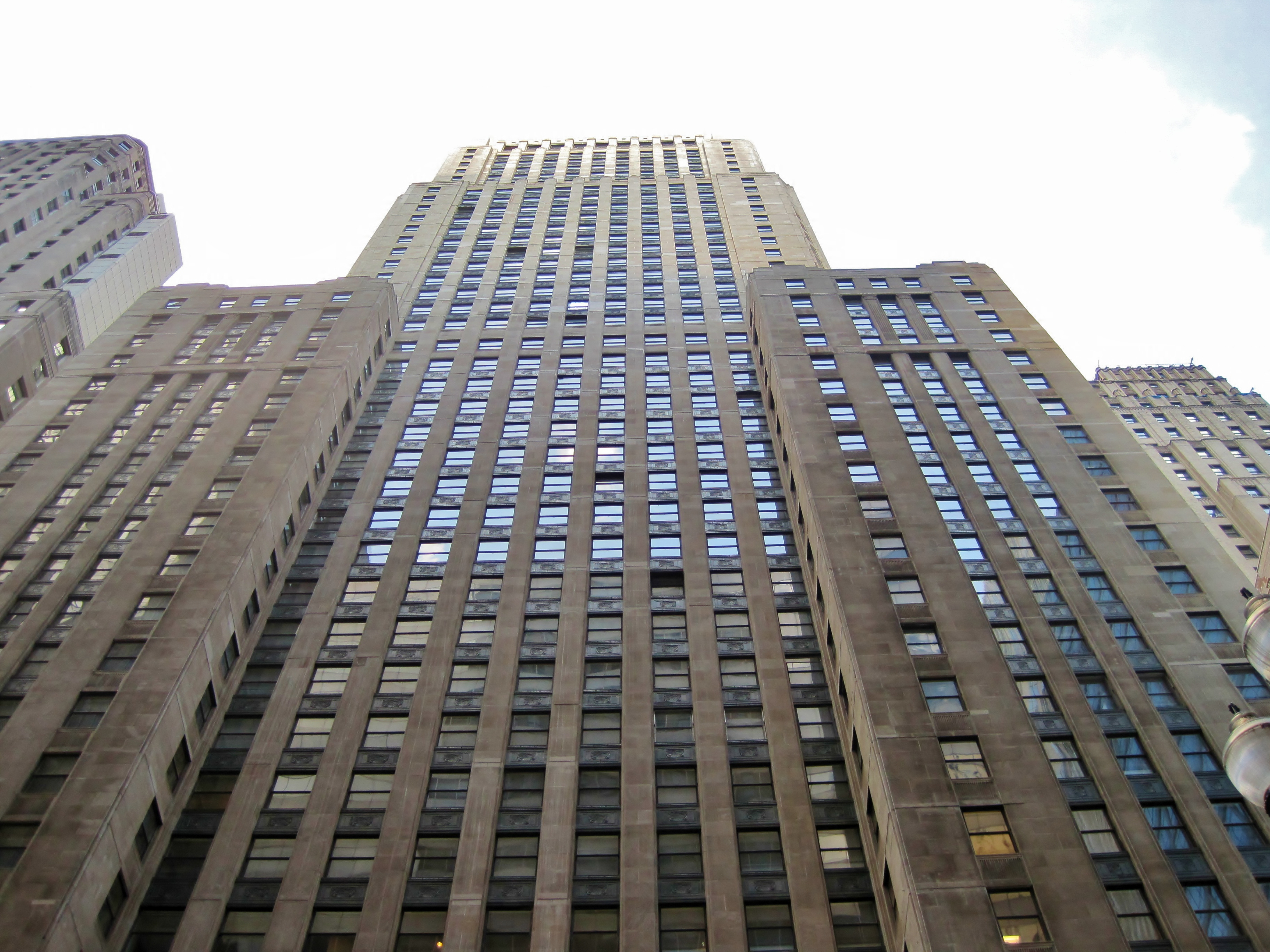 The One LaSalle Street Building in Chicago (1930). It was the fourth tallest building in Chicago for 35 years.